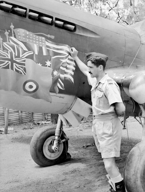 Livingstone, Northern Territory. Squadron Leader (Sqn Ldr) R. (Dick) Cresswell, Commanding Officer of No. 77 Squadron RAAF, standing beside his Curtiss P-40 Kittyhawk aircraft, serial no. A29-113, on which are painted as 'nose art' the US, Australian, and RAAF flags. In this aircraft Sqn Ldr Cresswell shot down a Japanese Mitsubishi G4M medium bomber aircraft, code-name Betty, on 23 November 1942.